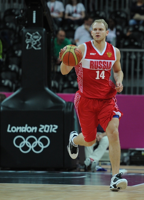 Russian bball player